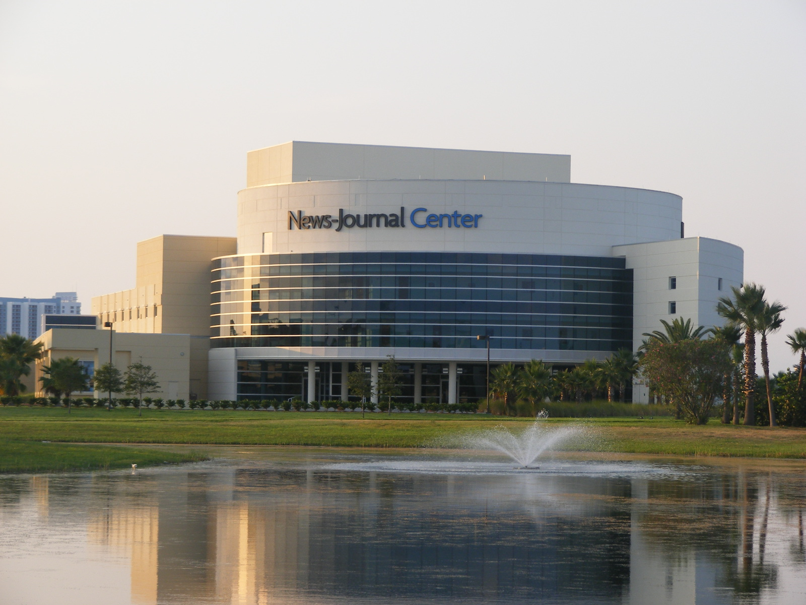 The controversial News-Journal Center in Daytona Beach, Florida